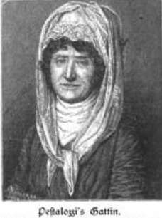 Wife of Pestalozzi